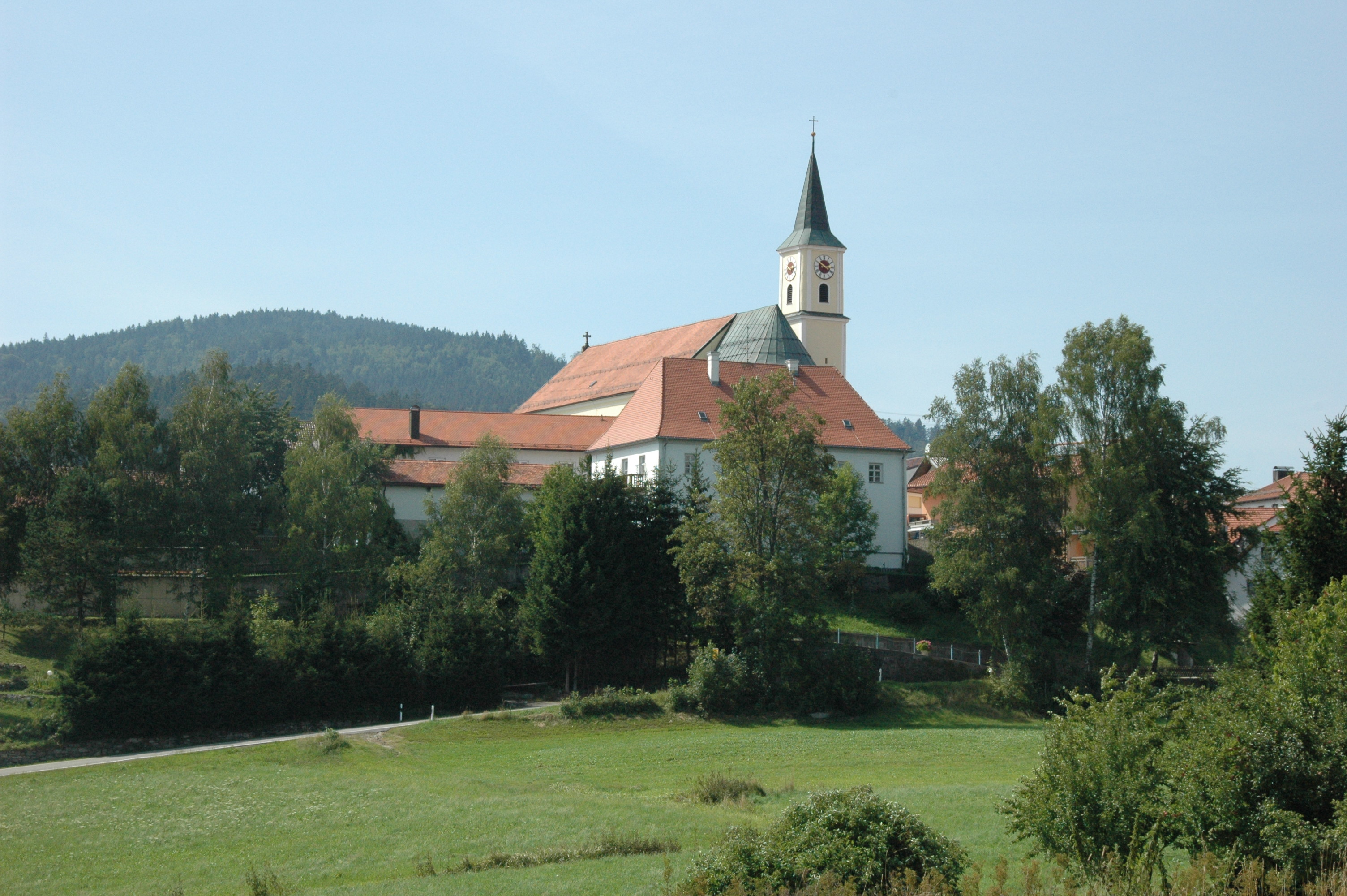 Bischofsmais, general view of the town centre with St James Parish Church from south-east.